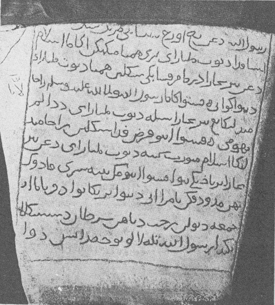 Terengganu stone inscription, Malaysia, side A